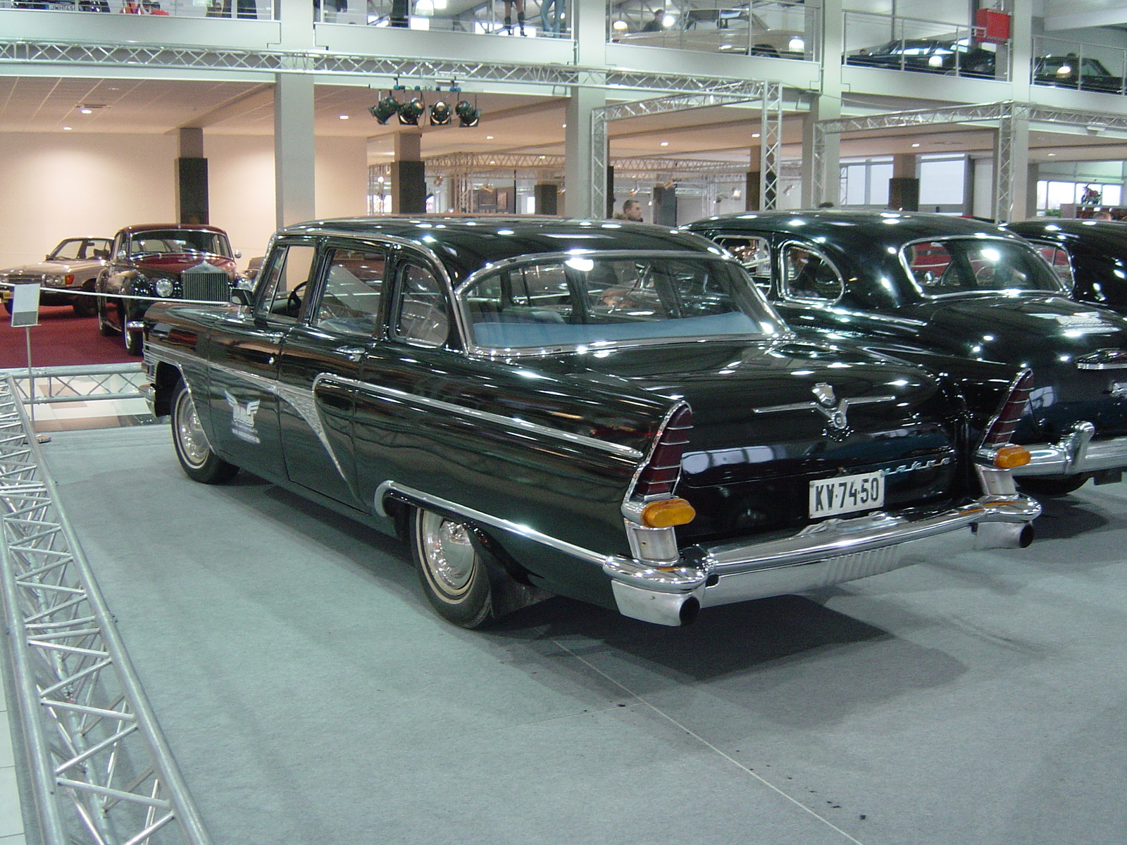 GAZ-13 Chaika at the Oldtimer Expo 2007.